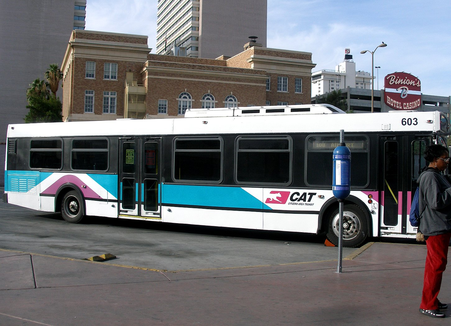 A Citizens Area Transit New Flyer D40LF bus seen at the Downtown Transportation Center in Downtown Las Vegas.